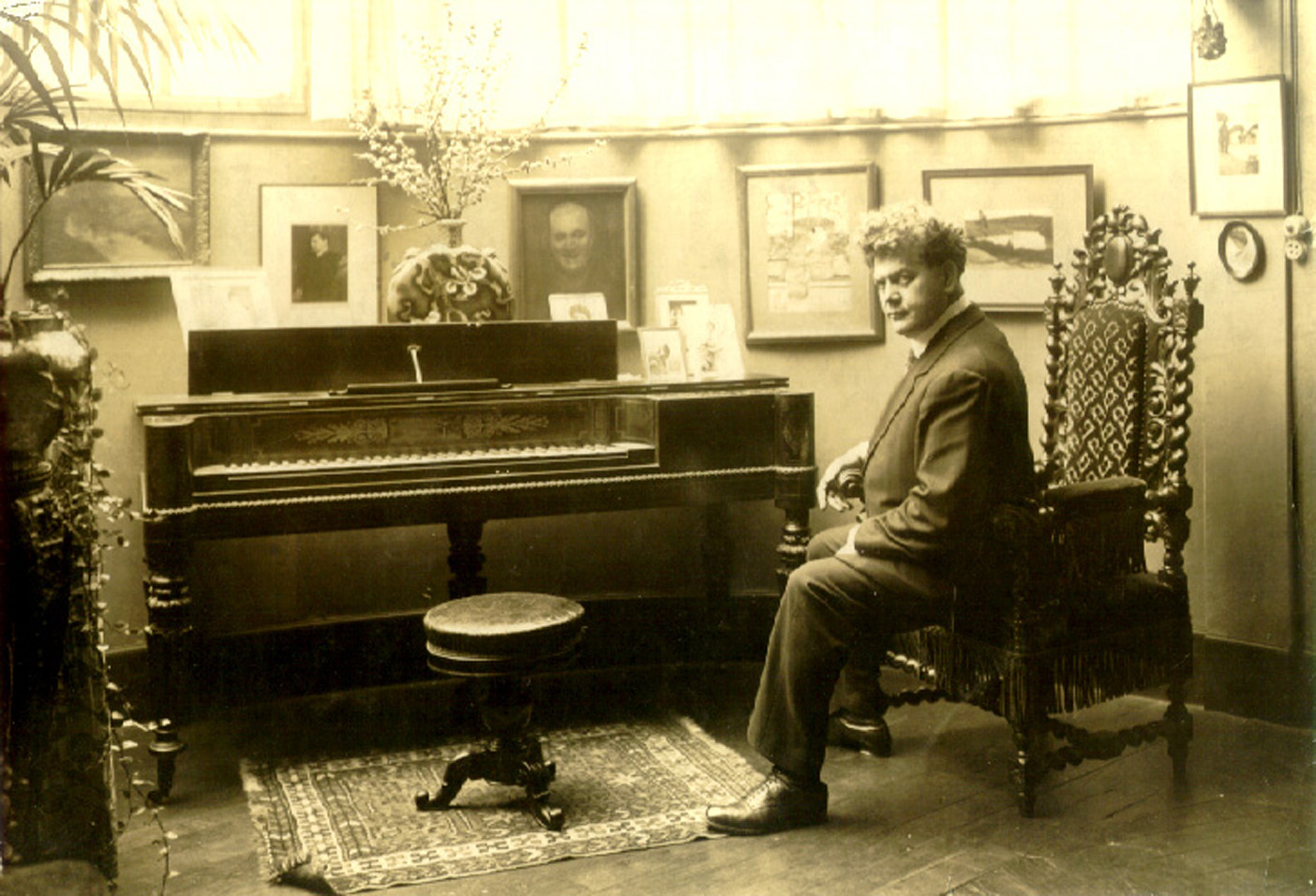 Charles W. Clark and his piano in his home, 1912